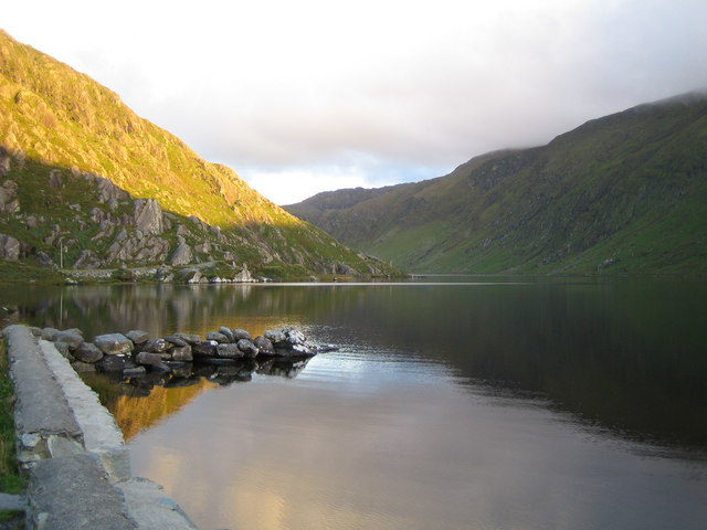 Loch an Ghleanna Bhig (Glenbeg Lough) The northern end of this glacially formed lake.